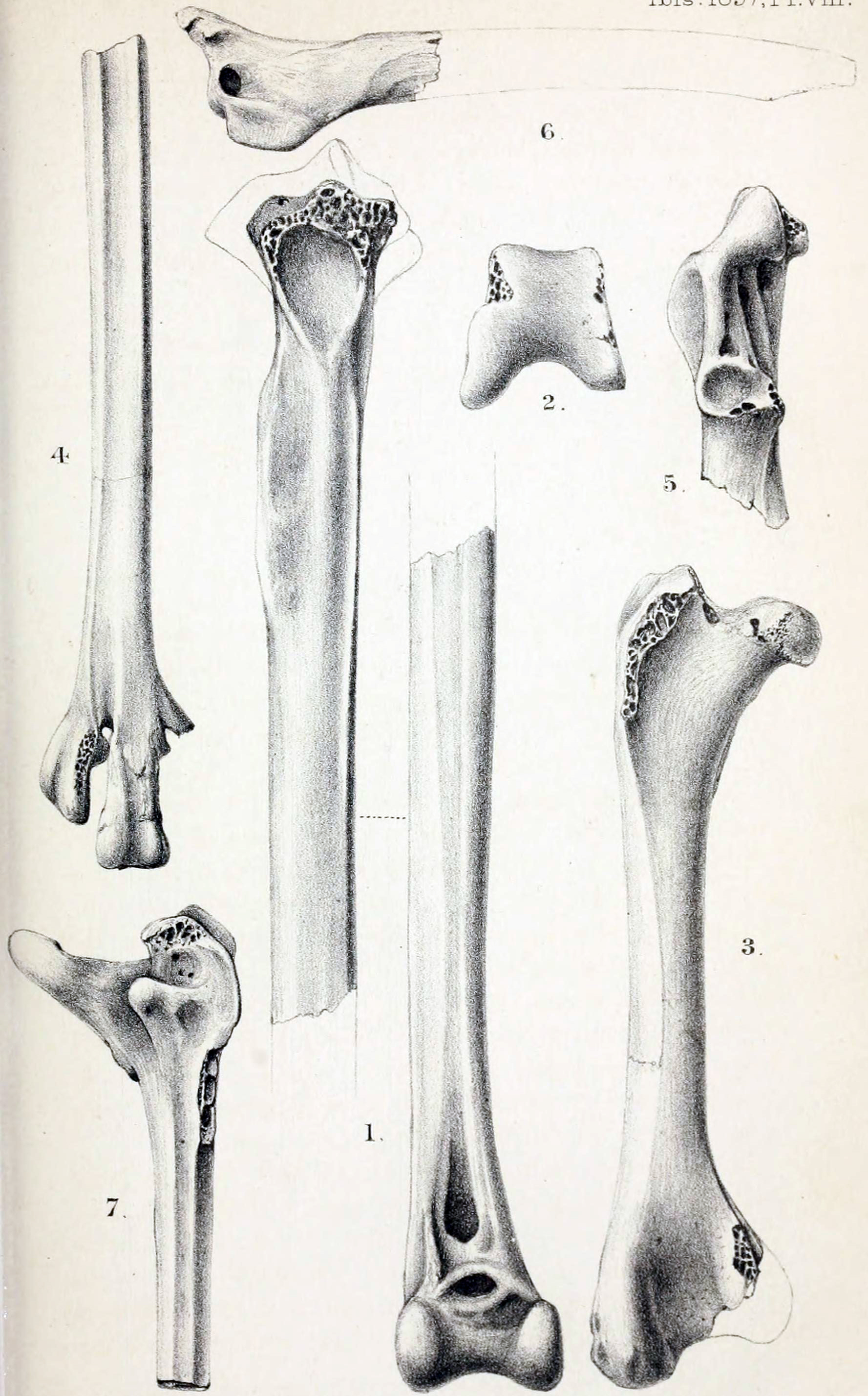 Limb fossils of Centrornis majori.